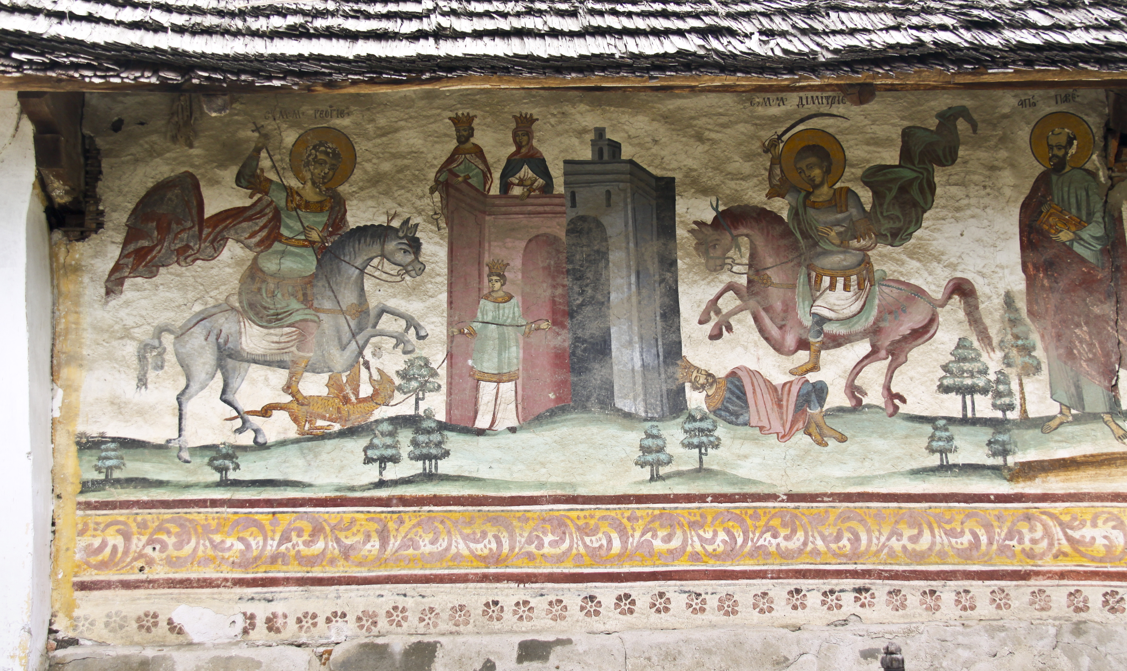 Voroveni, Argeş county, Romania: the wooden church.